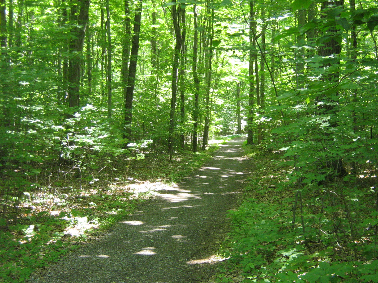 Trail in the Mont-Saint-Bruno National Park